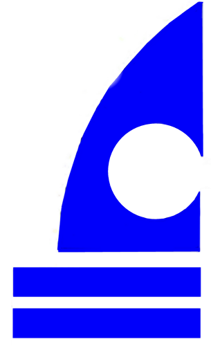 Self-made logo for the C-Scow sailing craft